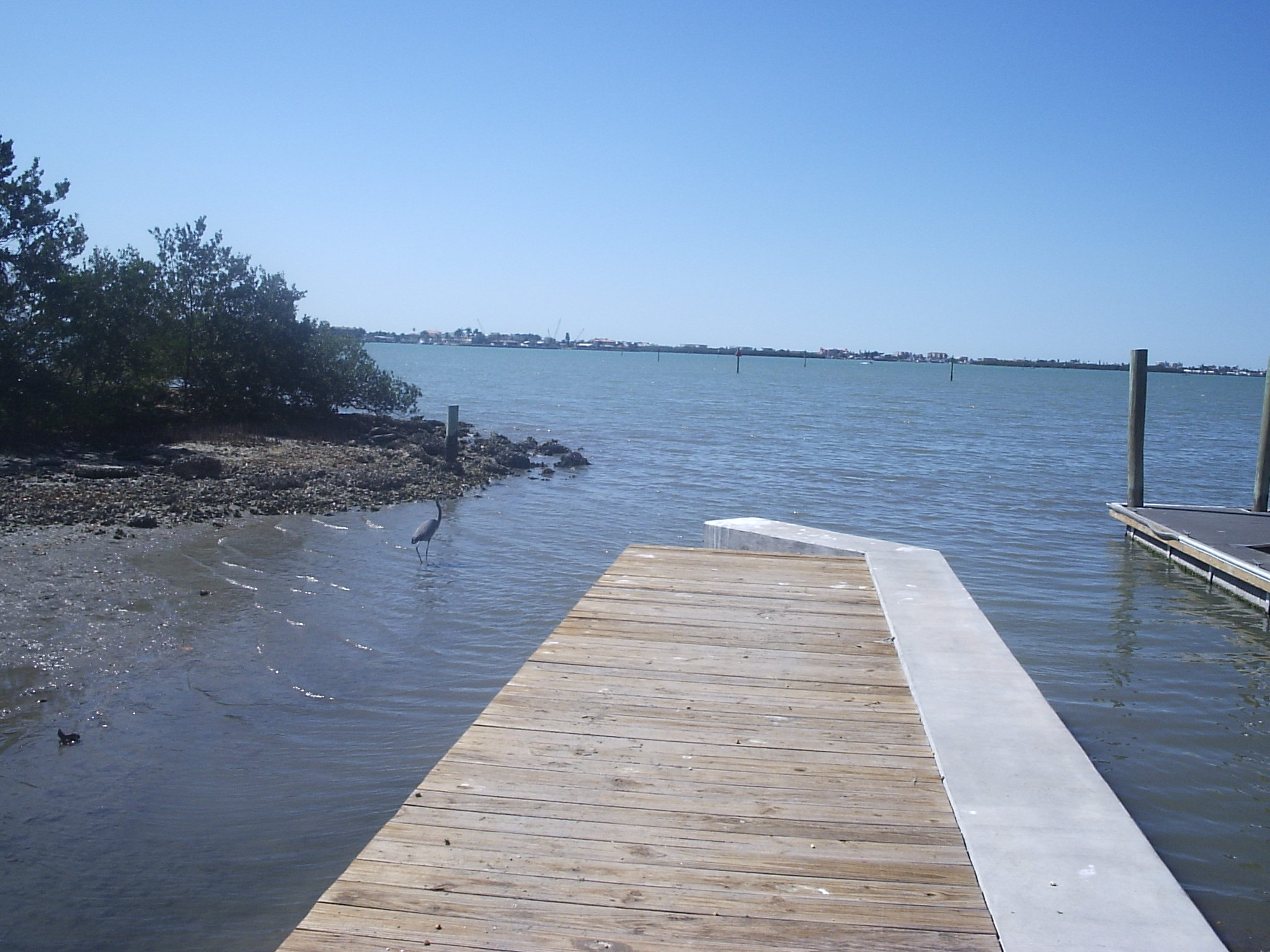 Jungle Prada/de Navaraez Park. St. Petersburg, Florida. Looking toward boat ramp on Boca Ciega Bay.